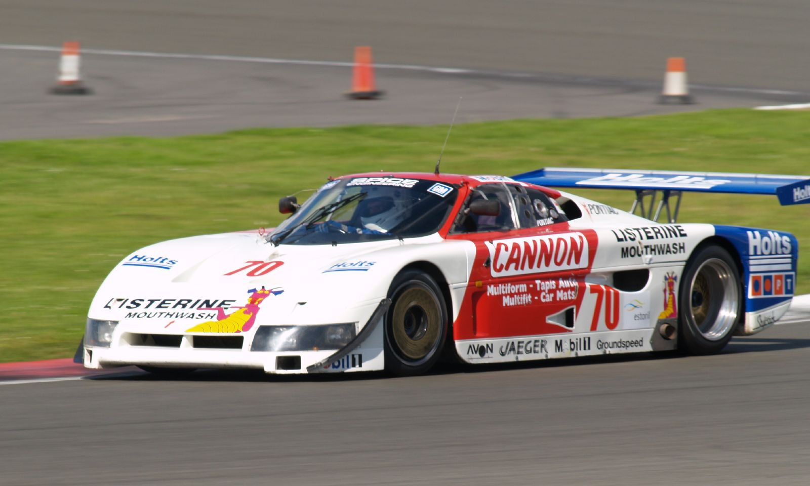 A Spice SE86-Pontiac at the Silverstone Classic